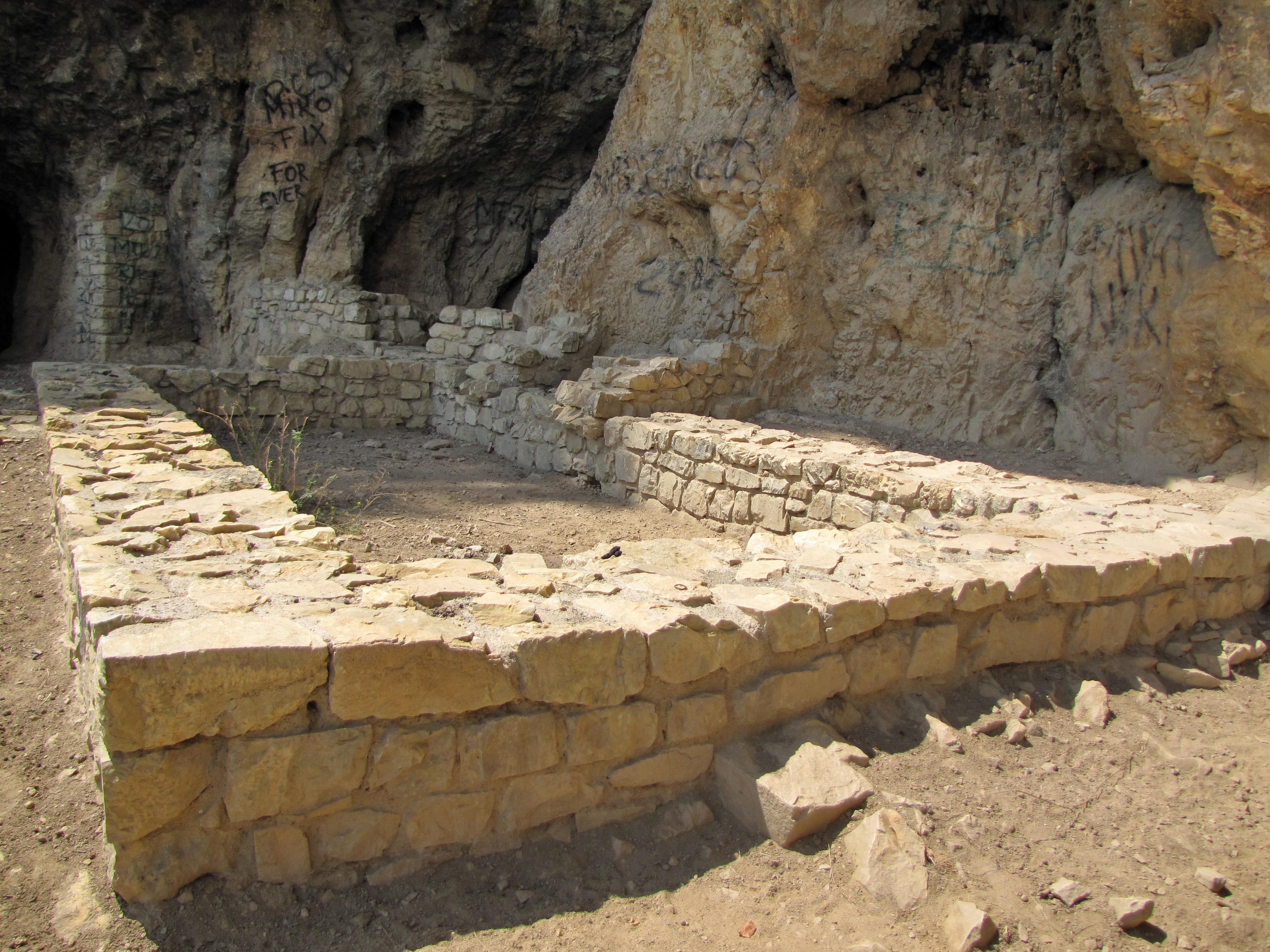 Cave monastery of the Archangel Michael in Stari Ras (Novi Pazar, SW Serbia).